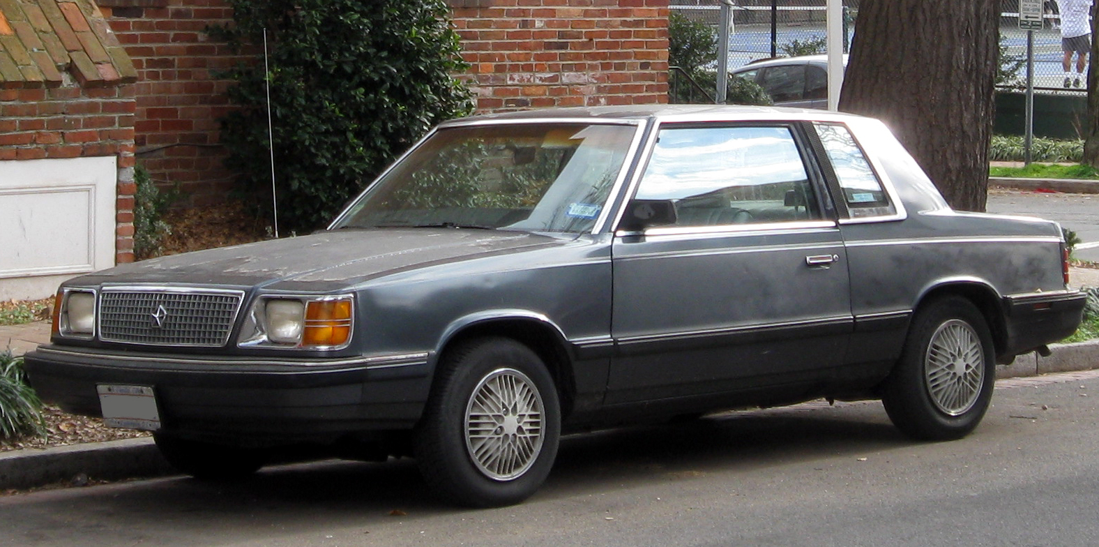 1985-1989 Plymouth Reliant photographed in Washington, D.C., USA.